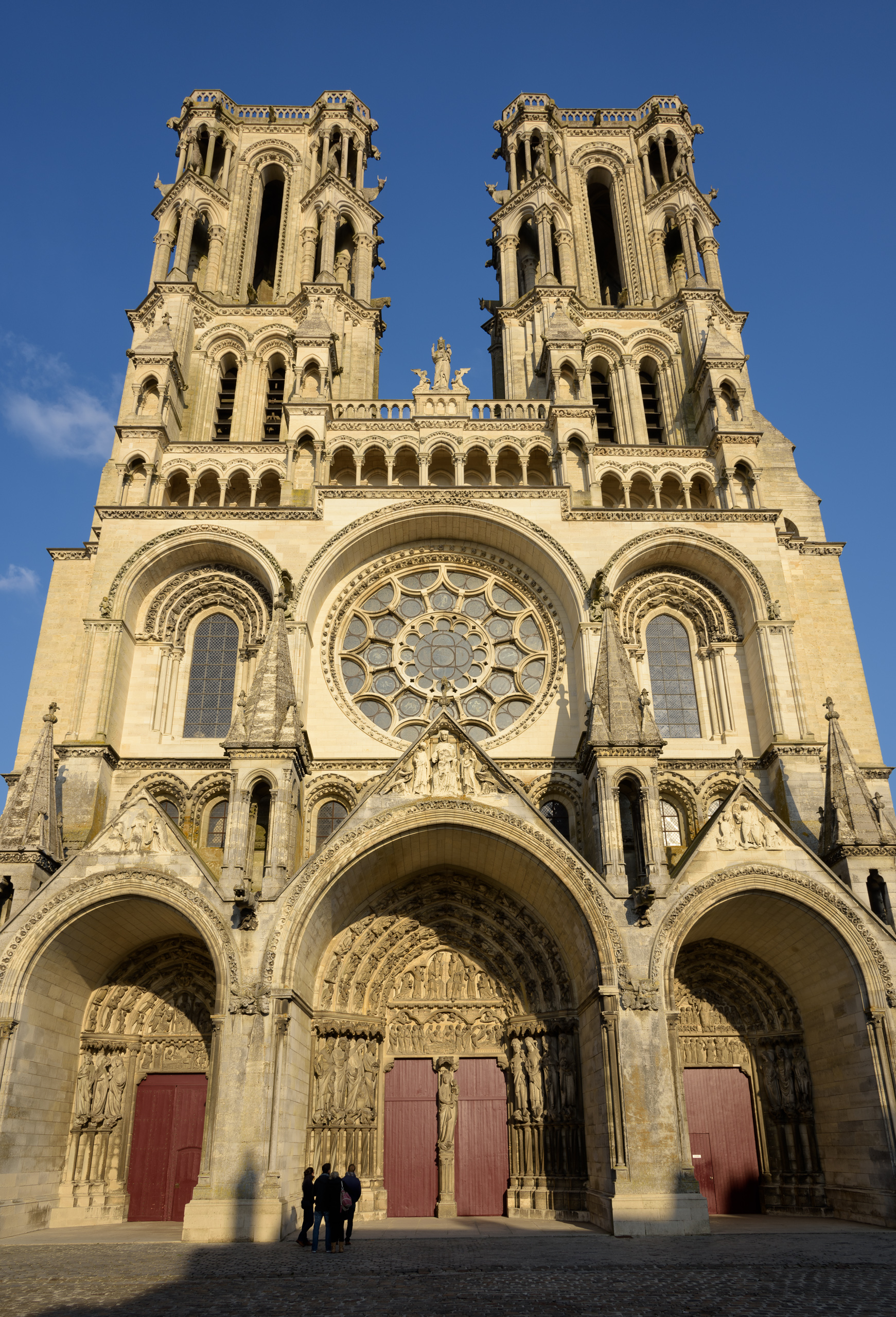 Laon Cathedral